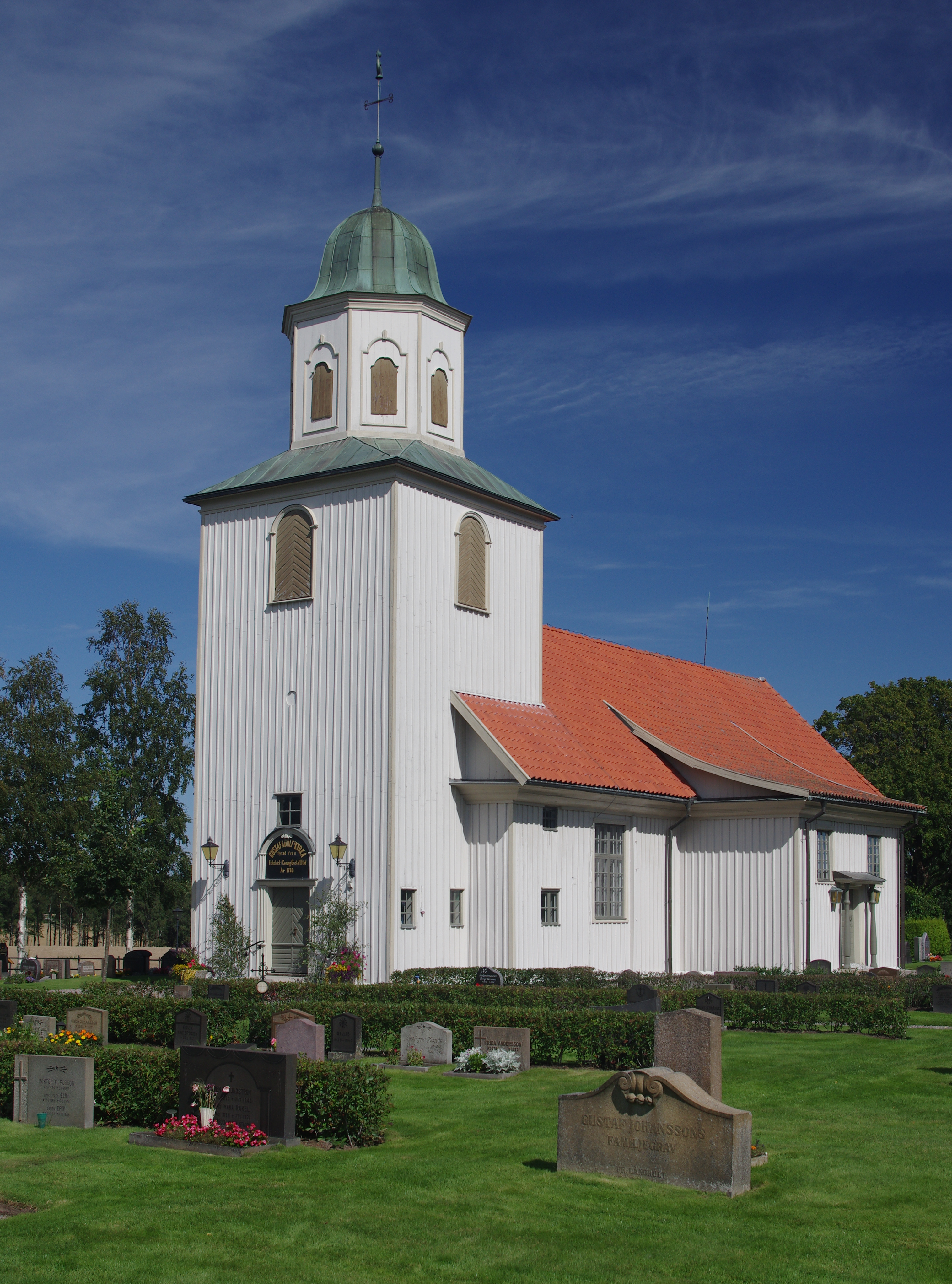 Gustav Adolfs kyrka (swedish: Gustav Adolf church), Västergötland, Sweden.